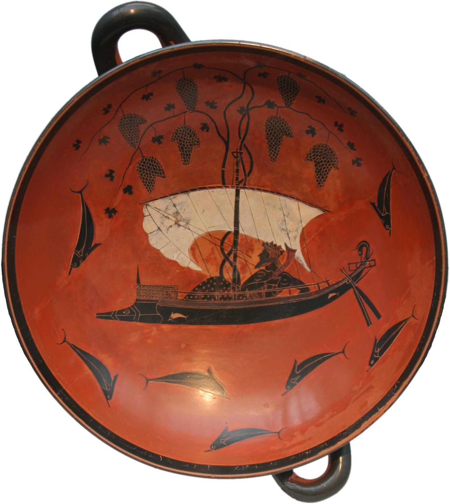 Dionysos in a ship, sailing among dolphins. Attic black-figure kylix, ca. 530 BC. From Vulci.